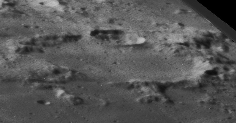 Oblique view of Barrow, facing west, on the moon.